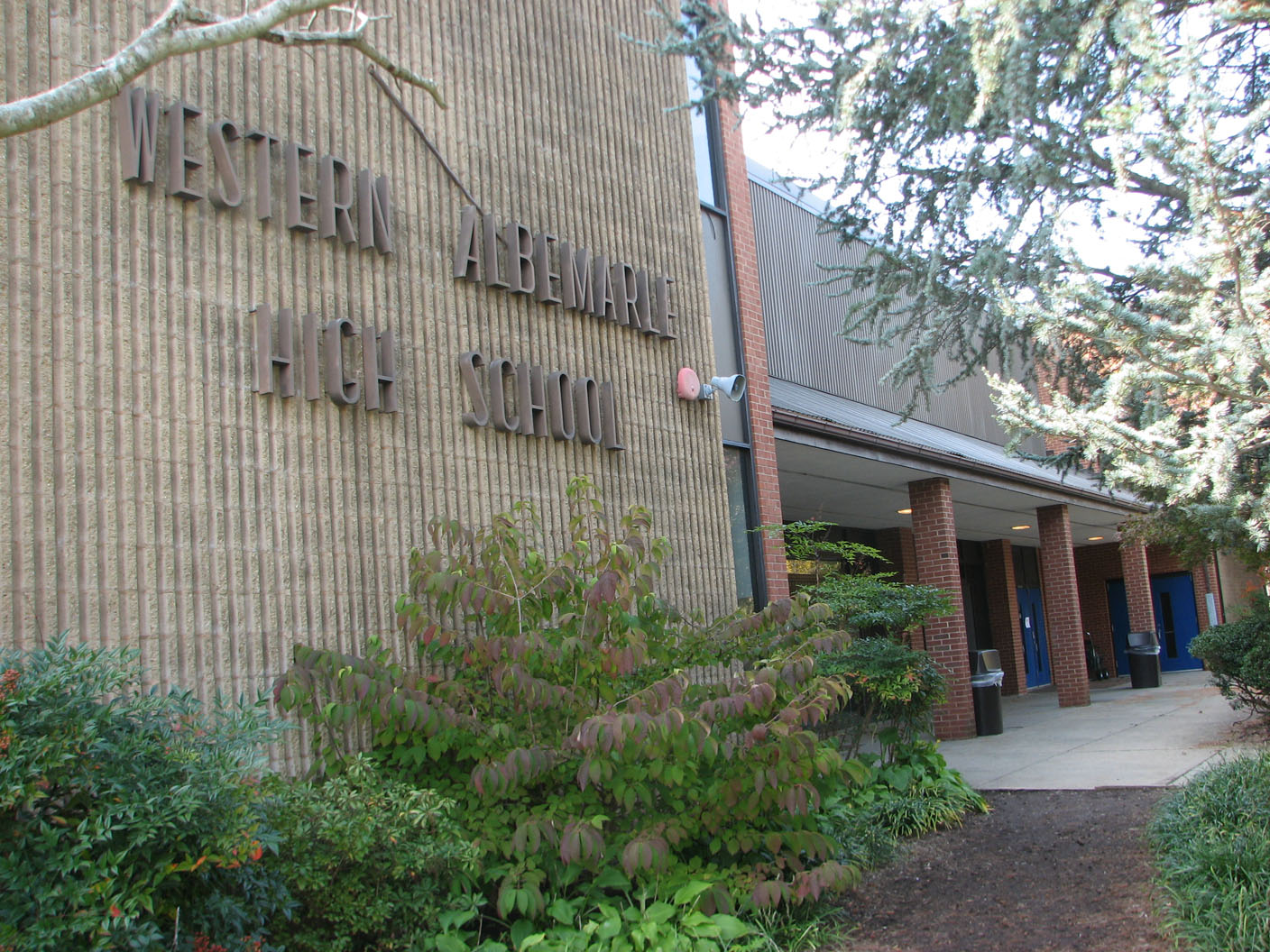 Photo of front of Western Albemarle High School in Crozet, Virginia. Taken in October, 2006, by RebelAt.